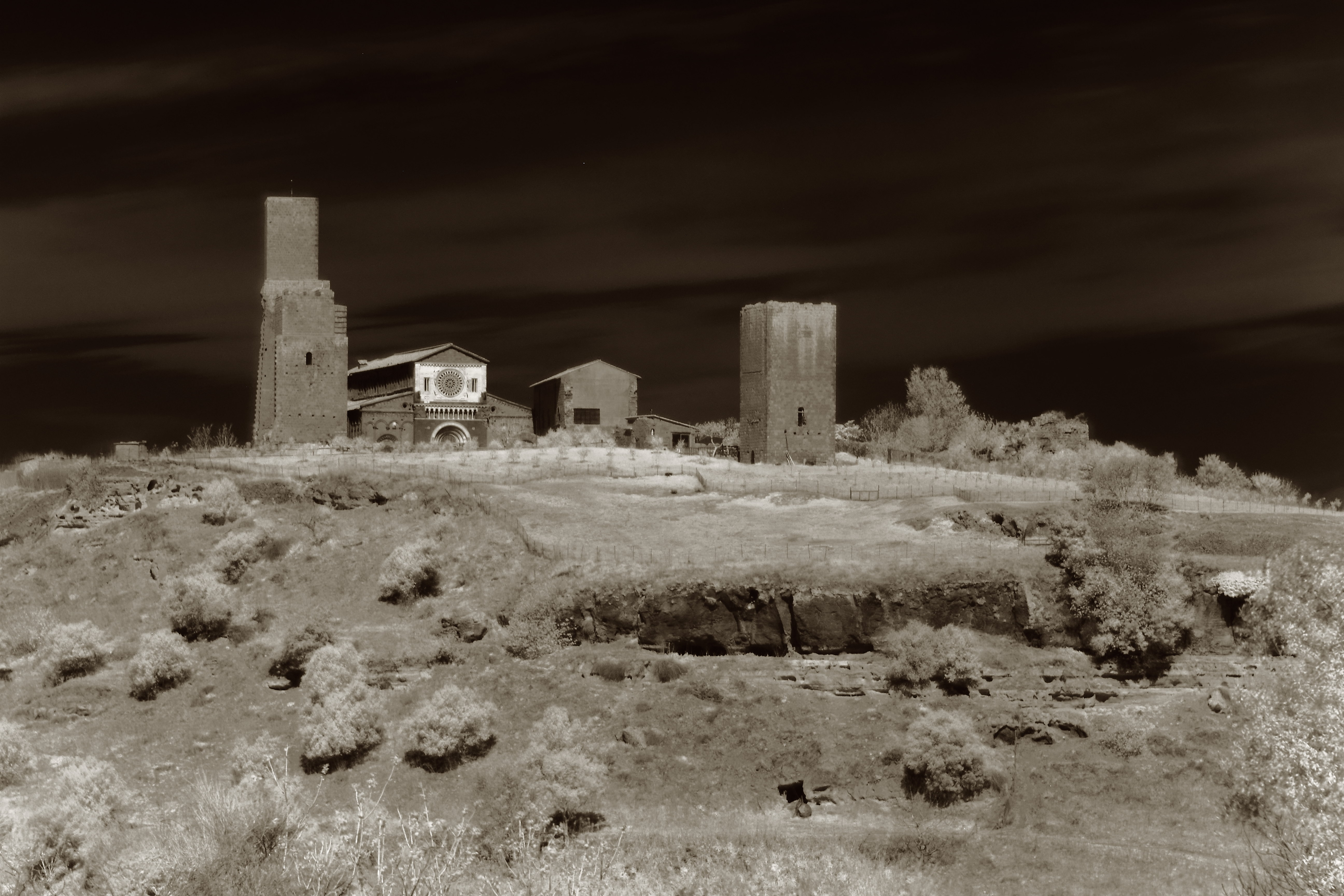 Basilica di San Pietro, dating from the 700s, with newer facade from the 1200s, and ancient crypt decorations dating from the the 300s